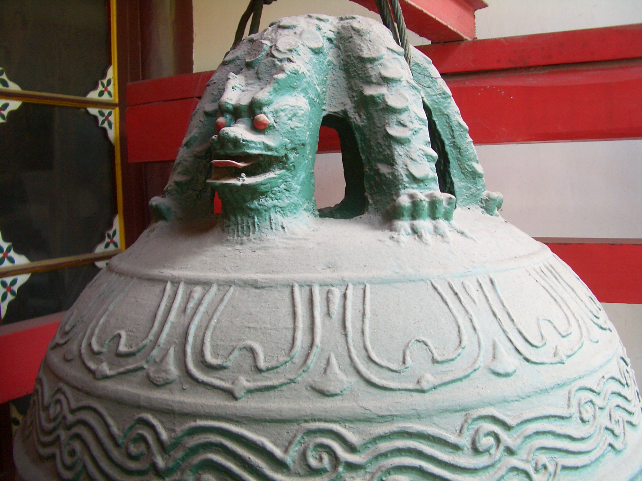 A bell with a pulao dragon on top in the Hall of Supreme Purity (Tai Qing Dian) in Changchun Temple, Wuhan